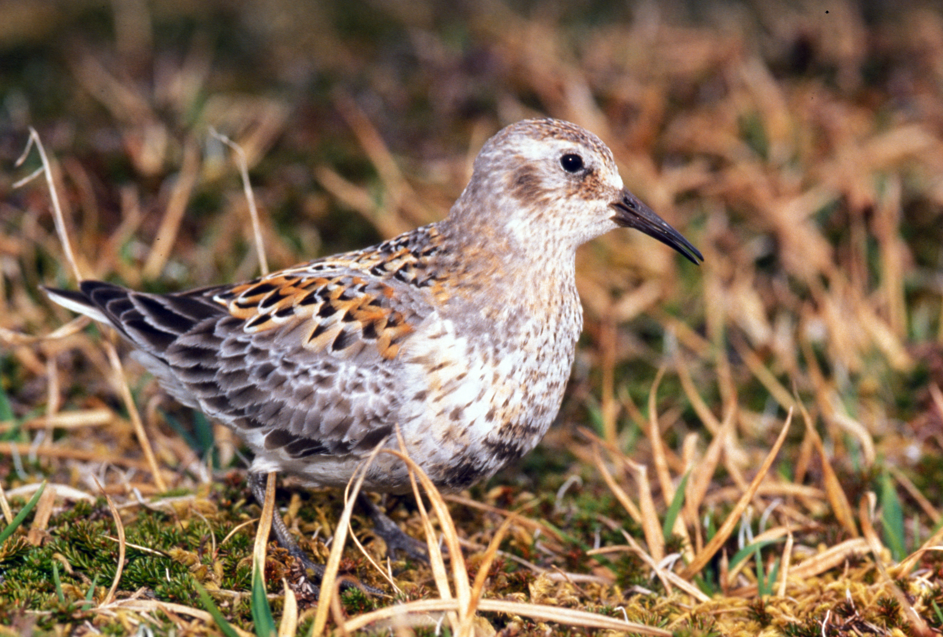 Rock sandpiper (Calidris ptilocnemis), Aleutian Islands, Alaska Maritime National Wildlife Refuge